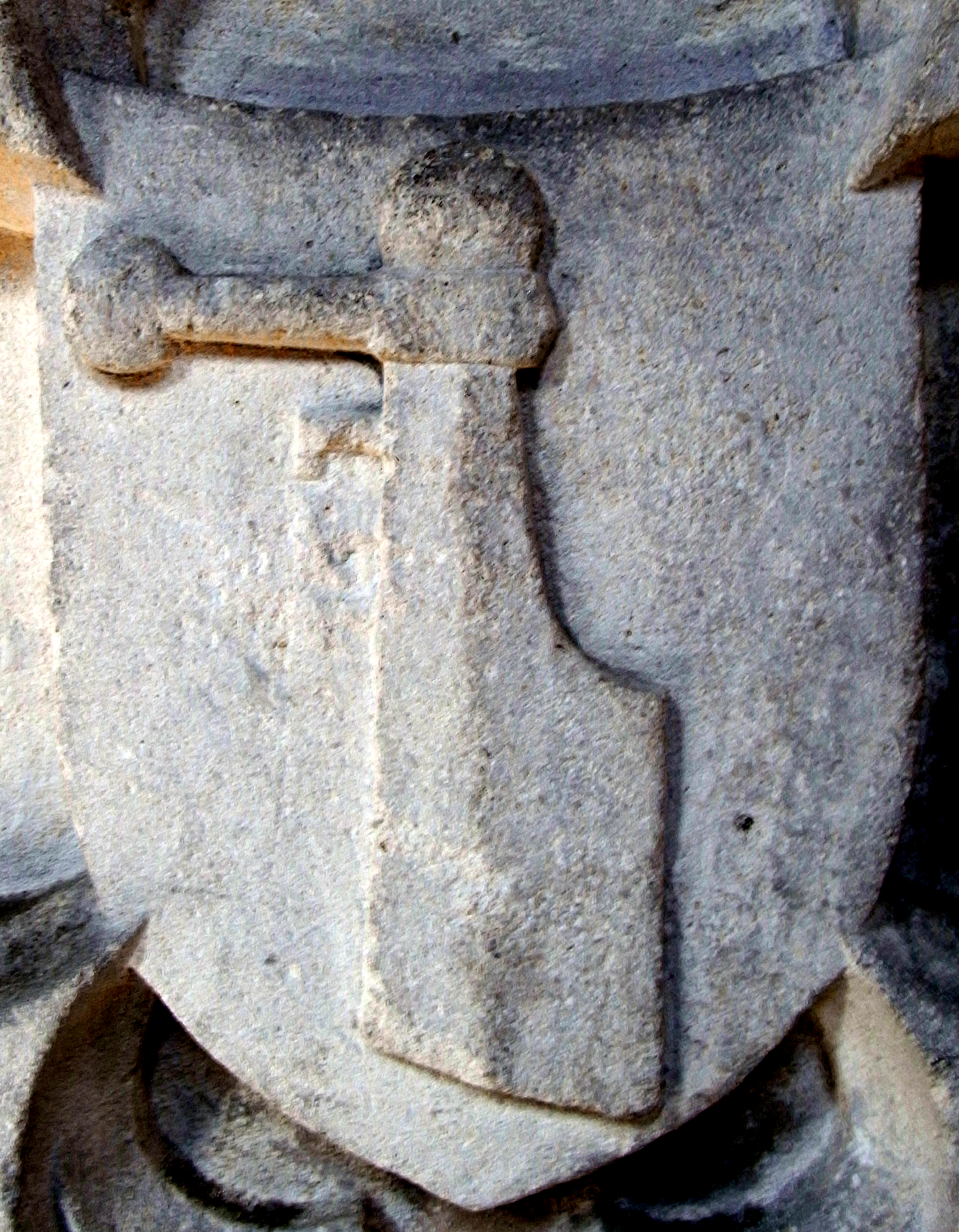 Rudder heraldic badge, chantry chapel monument in Edington Priory Church, Wiltshire, to Sir Ralph Cheyne (c.1337-1400) (alias Cheney), of Brooke, in the parish of Westbury in Wiltshire, thrice a Member of Parliament for Wiltshire and Deputy Justiciar of Ireland in 1373 and Lord Chancellor of Ireland 1383-4. He was Deputy Warden of the Cinque Ports. Cheney's heraldic badge was a rudder, apparently first adopted by his ancestors the Paveley family of Brook. John Aubrey stated concerning his visit to Brook Hall: "Mr Wadman would persuade me that this rudder belonged to the Paveleys who had this place here".[1] Use of the Rudder badge descended to Cheney and then to Robert Willoughby, 1st Baron Willoughby de Broke. Camden stated of Cheney's descendant: "Lord Willoughby, by report Admiral, used the helme of a ship for the seal to his ring". Aubrey asserted that it had been used by "Lord Willoughby de Broke" in the reign of King Edward IIIs. However "there was no such baron until Hen. VII. and no Willoughby, Admiral, appears in Rapin's List".[2] The device of a Rudder in stained glass windows was recorded by John Leland (1503-1552) when he visited Brook. It survives today in Edington Church, and Aubrey noted the presence in a chapel south of the chancel in Westbury Church "in one window some rudders of ships or".[3] Also present in church of "Seend".[4]